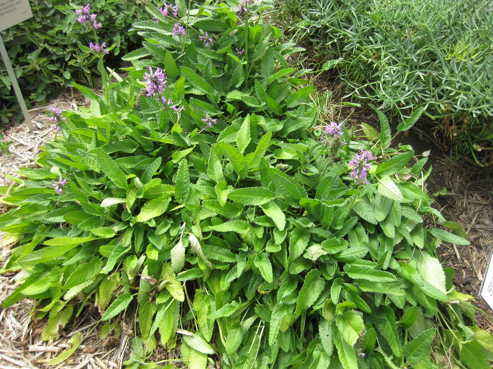 Photographed at the Royal Botanic Gardens Sydney (Australia) in January